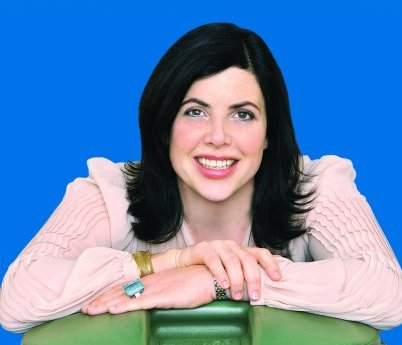 crop of Kirstie Allsopp from original promoting composting in 2009, for the Don't let Devon go to waste campaign